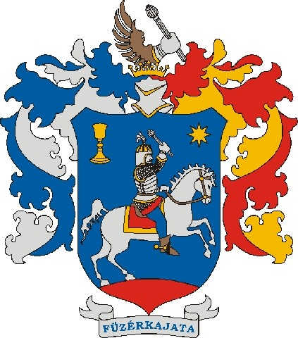 Coat of arms of Füzérkajata, Hungary